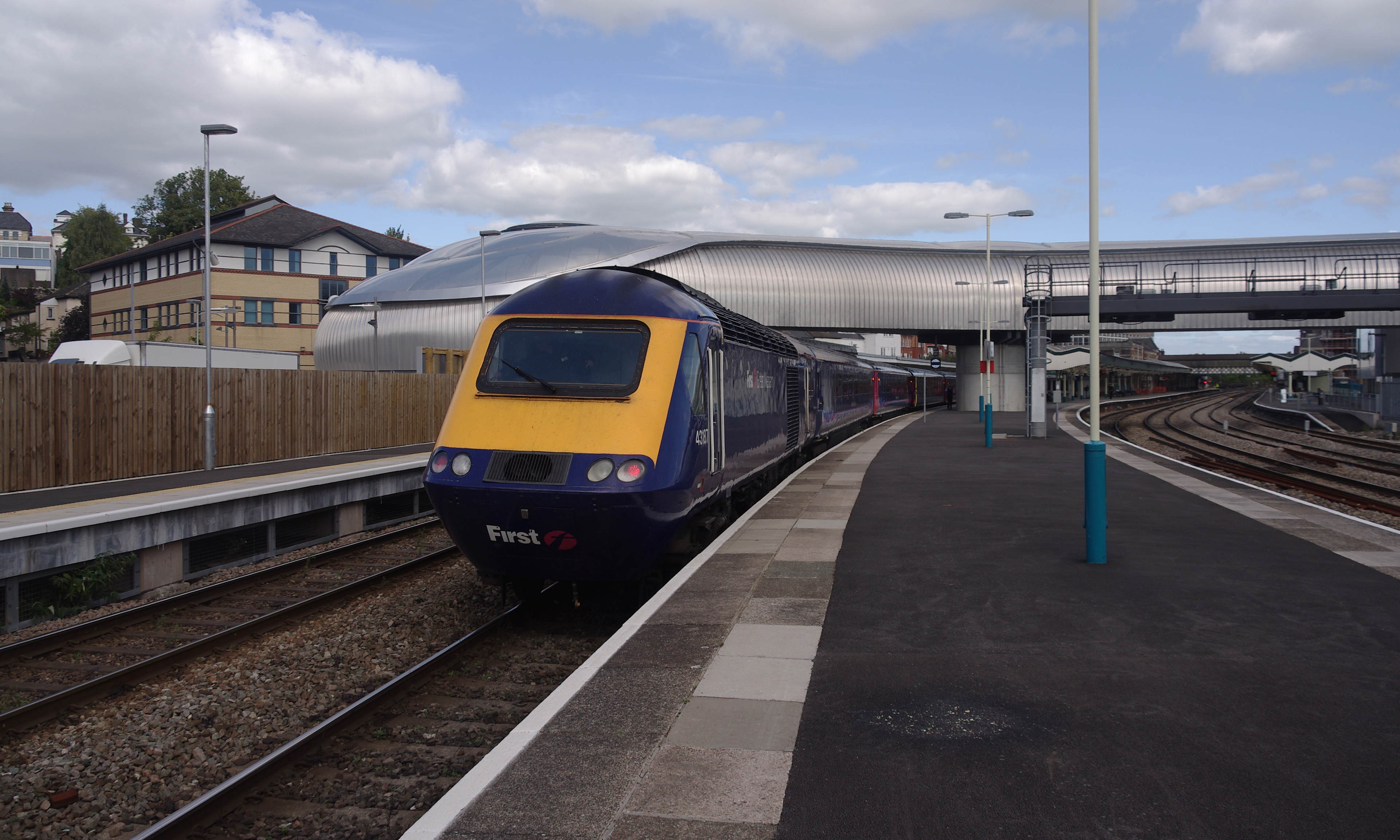 A First Great Western HST service tailed by 43187 departs Newport railway station with a service to London.